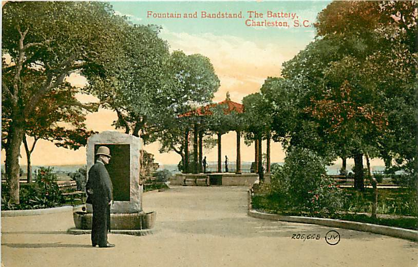 A policeman is shown in the early postcard of White Point Garden standing at the north-south walkway starting at Meeting St. The bandstand memorializing the Williams family is seen in the center of the park.